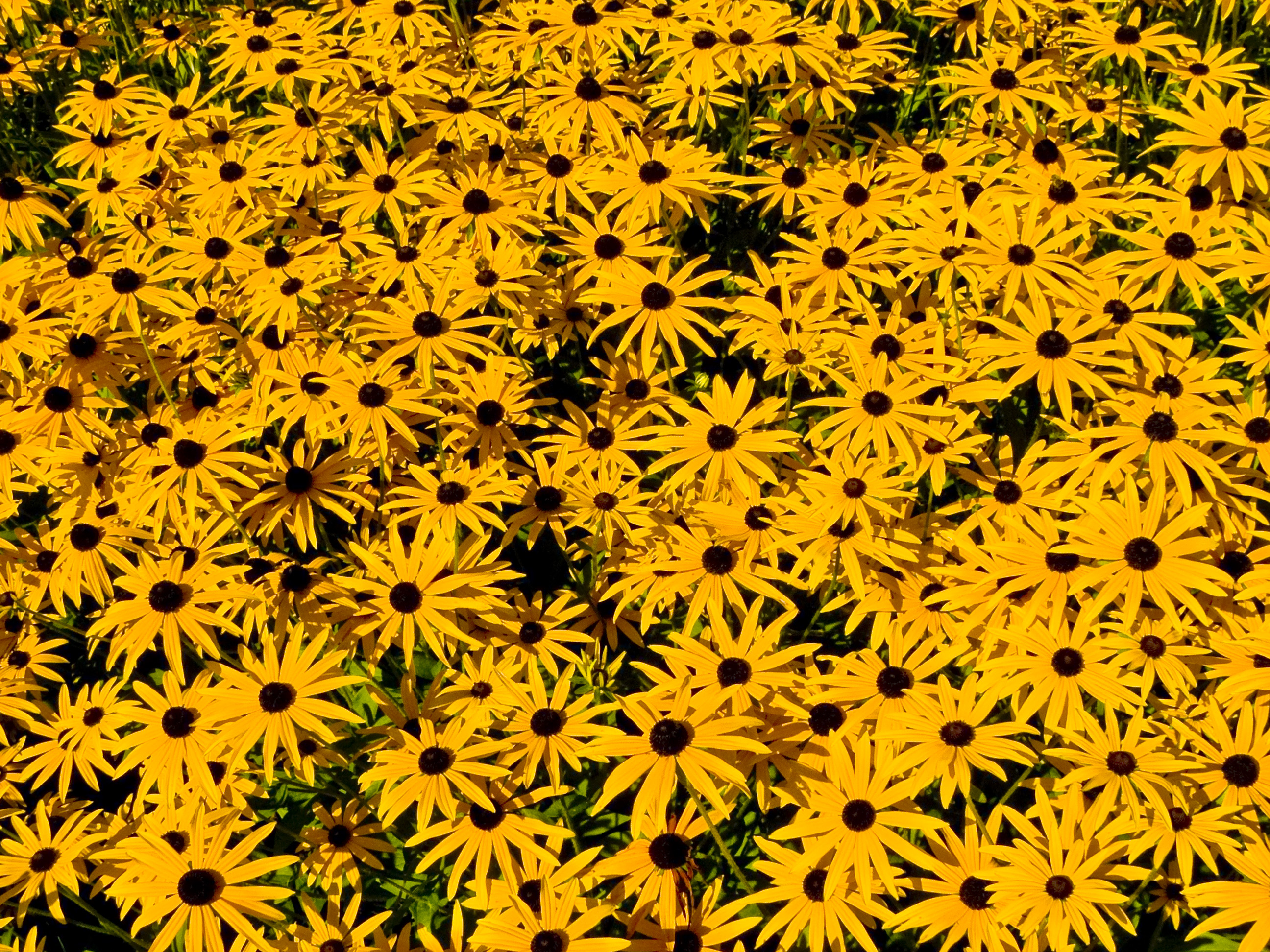 Rudbeckia fulgida in the New Botanical Garden Marburg, Hesse, Germany